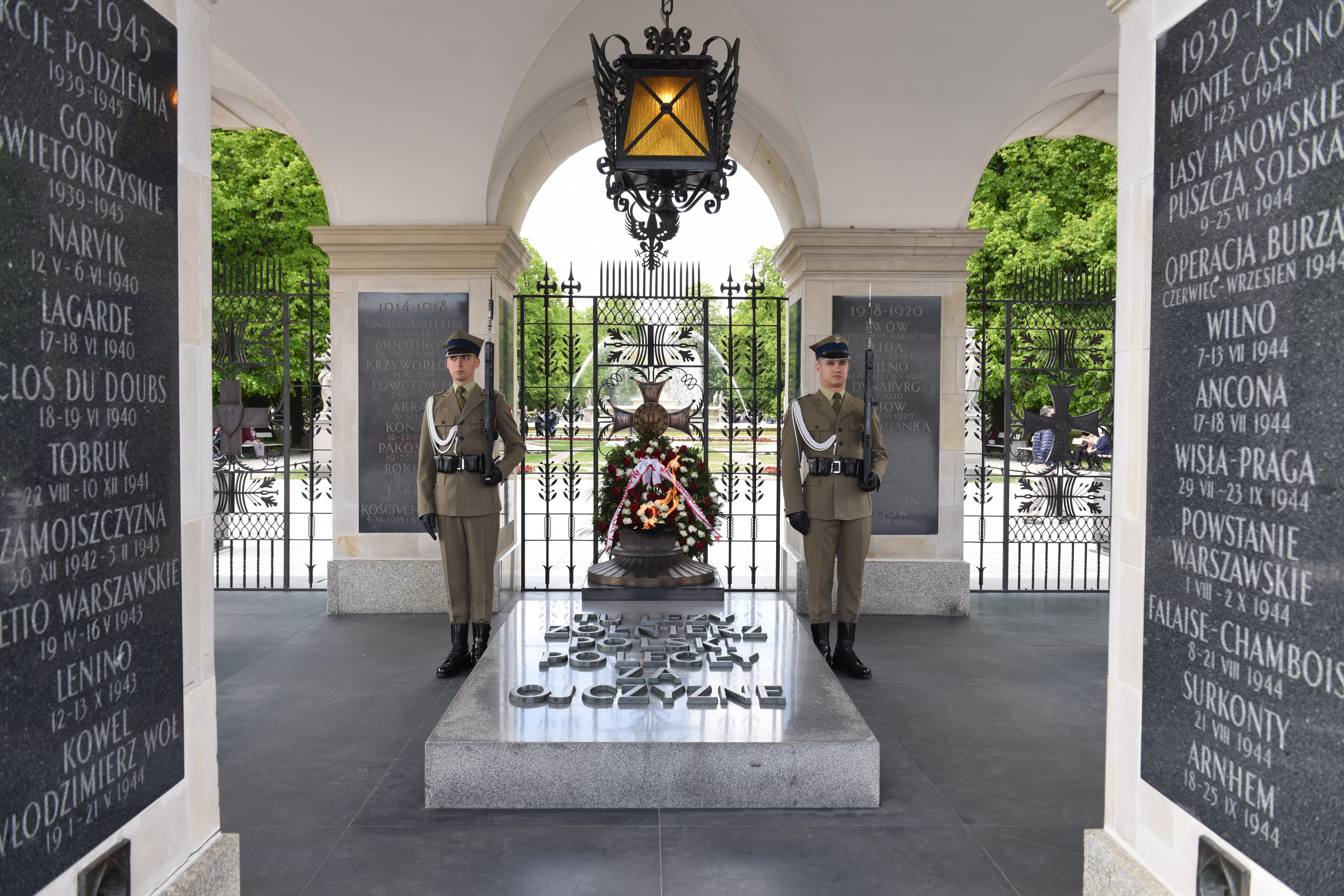 74th anniversary of the end of World War II in Europe. Celebrations in Warsaw in Poland.